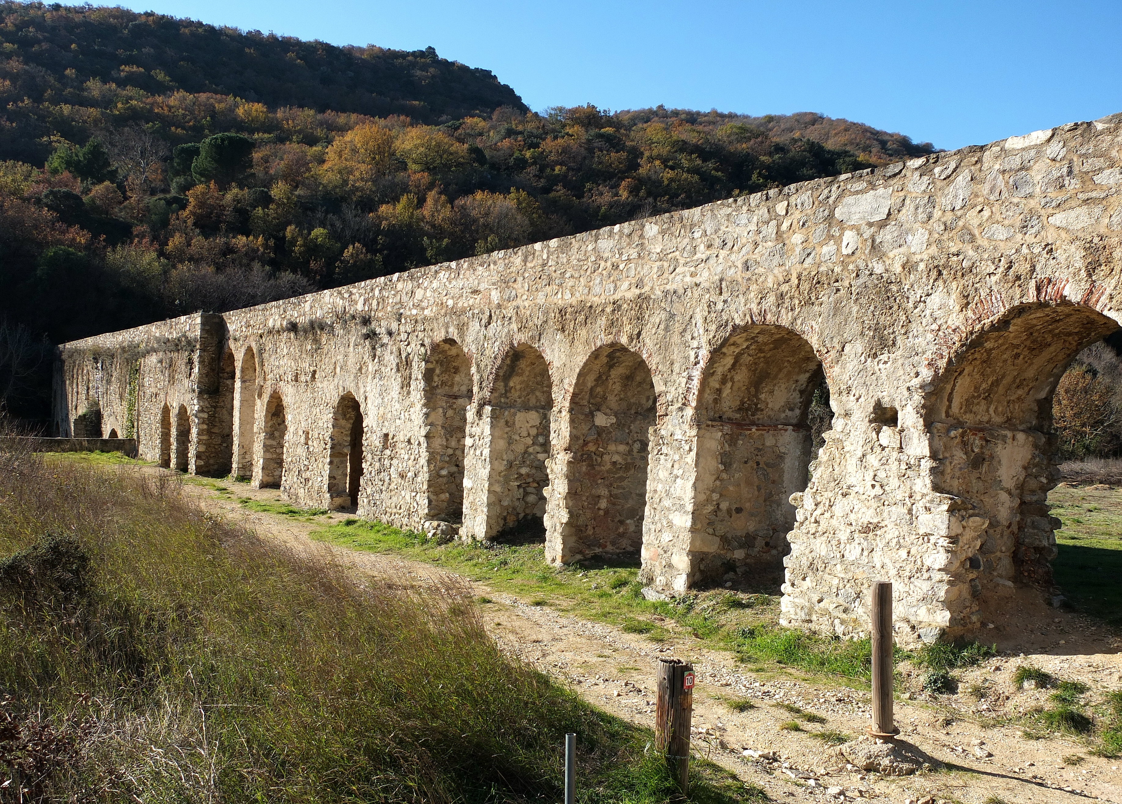 Roman Aqueduct of Ansignan, Pyrénées-Orientales, France (view East).